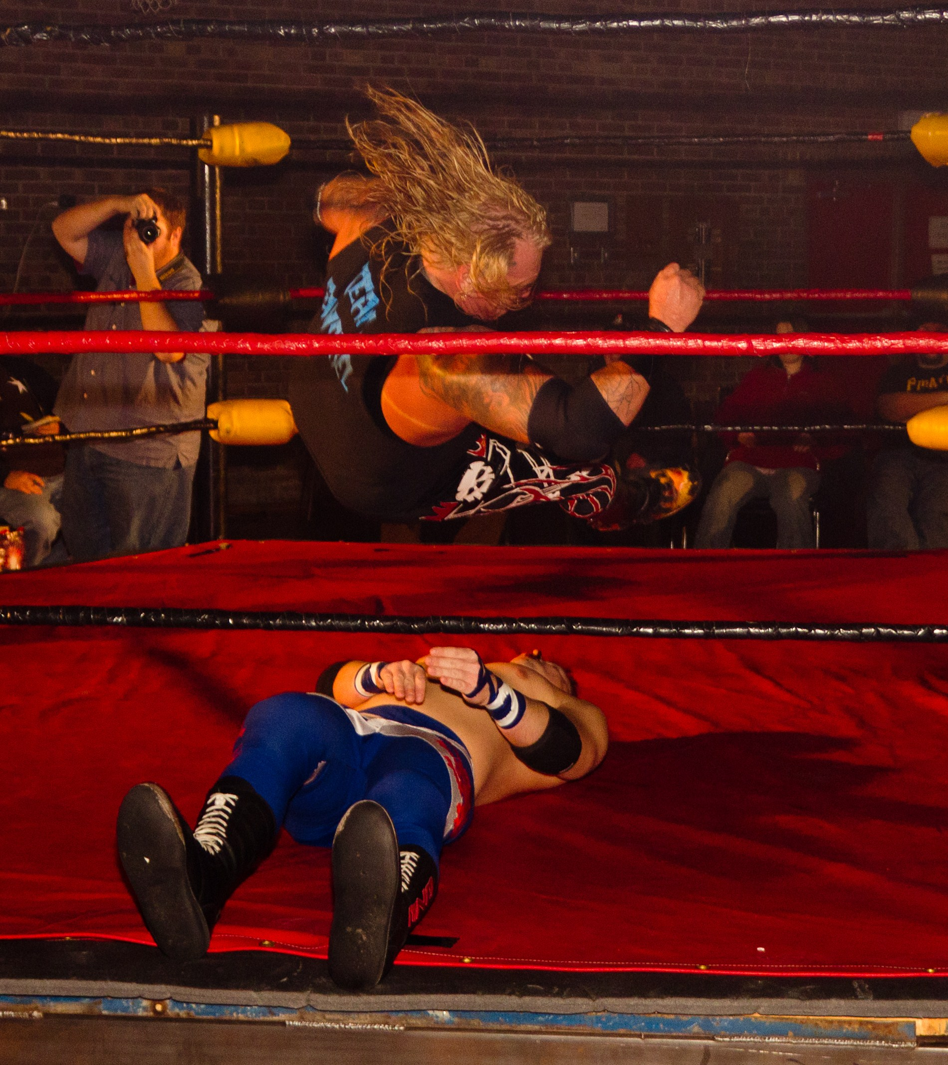 Pro wrestler Gangrel (real name David Heath) performing an elbow drop on "EZ-E" Eric Cairnie